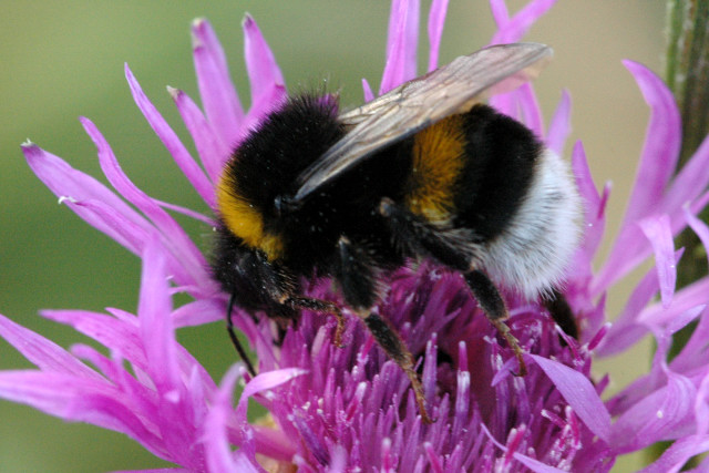 Bombus lucorum from Commanster, Belgian High Ardennes .